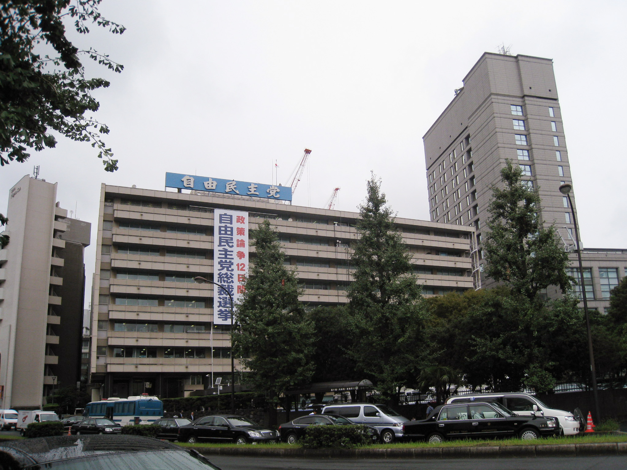 Headquarters of Liberal Democratic Party, at the day of leadership election, 2008. Nagatachō, Chiyoda, Tokyo, Japan